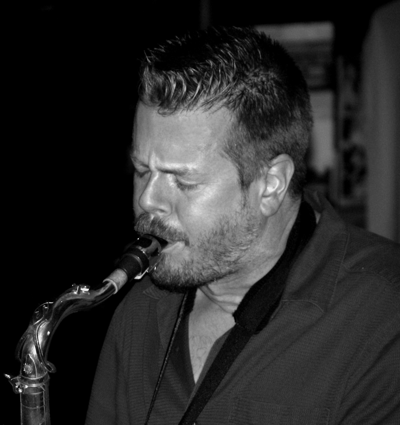 description: Ken Vandermark photographer: Seth Tisue photographer_location: Boston, MA, USA photographer_url: [1] flickr_url: [2] taken:September 24, 2004